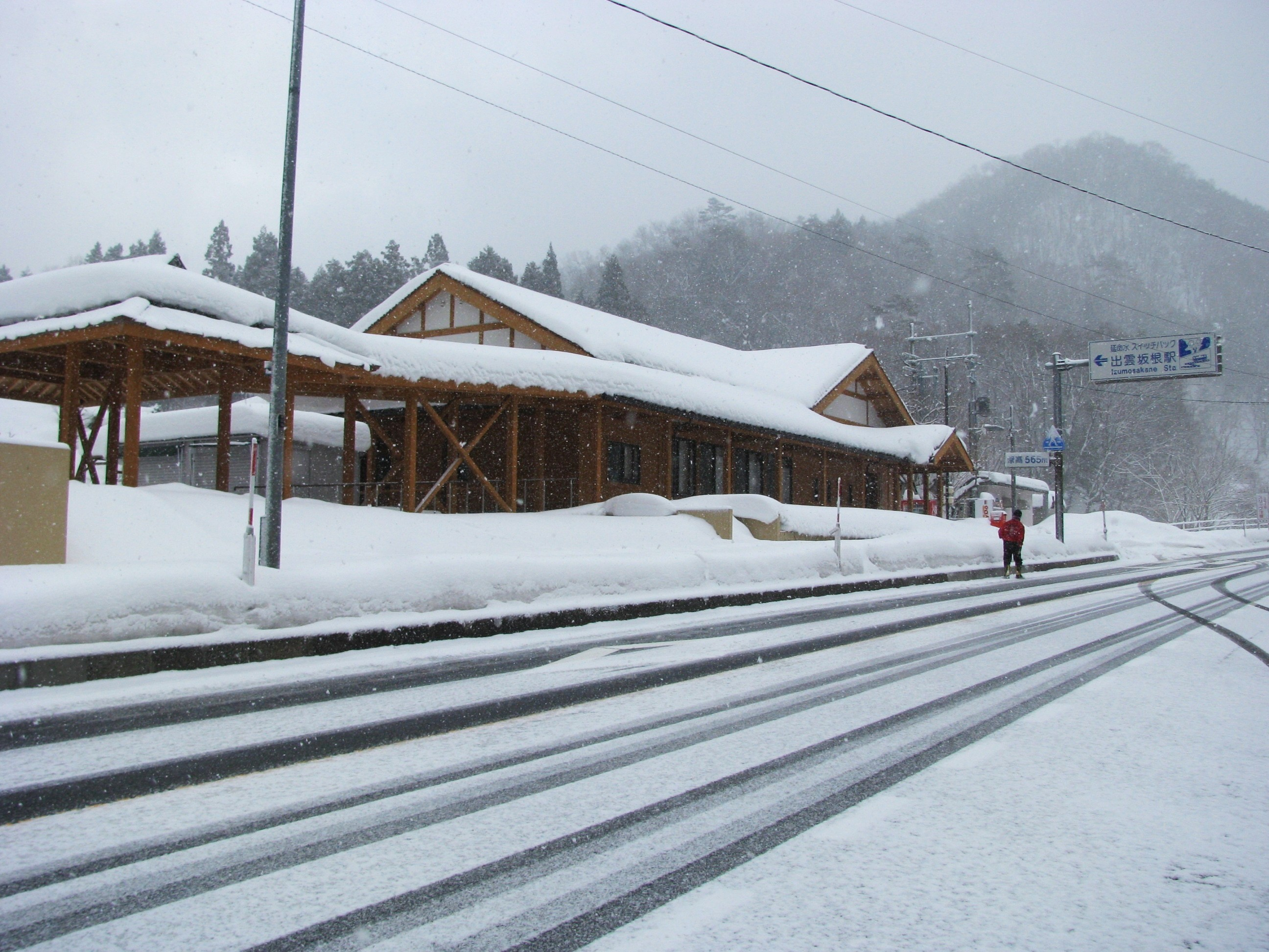 The Izumo-Sakane Station is a station of Kisuki Line. This place is Okuizumo, Nita District, Shimane Prefecture, Japan.